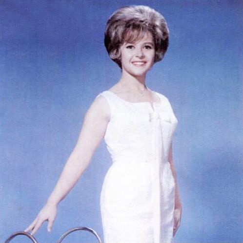 Trade ad for Brenda Lee's single "Too Many Rivers".To better adapt it to his respective Wikipedia article, the ad was cropped and cleaned in a graphics editing program. The original can be viewed at the source below.